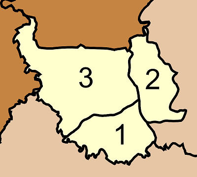 Map of Tham Phannara district, Nakhon Si Thammarat province, Thailand, with the communes (tambon) numbered. Tham Phannara (ถ้ำพรรณรา) Khlong Se (คลองเส) Dusit (ดุสิต)